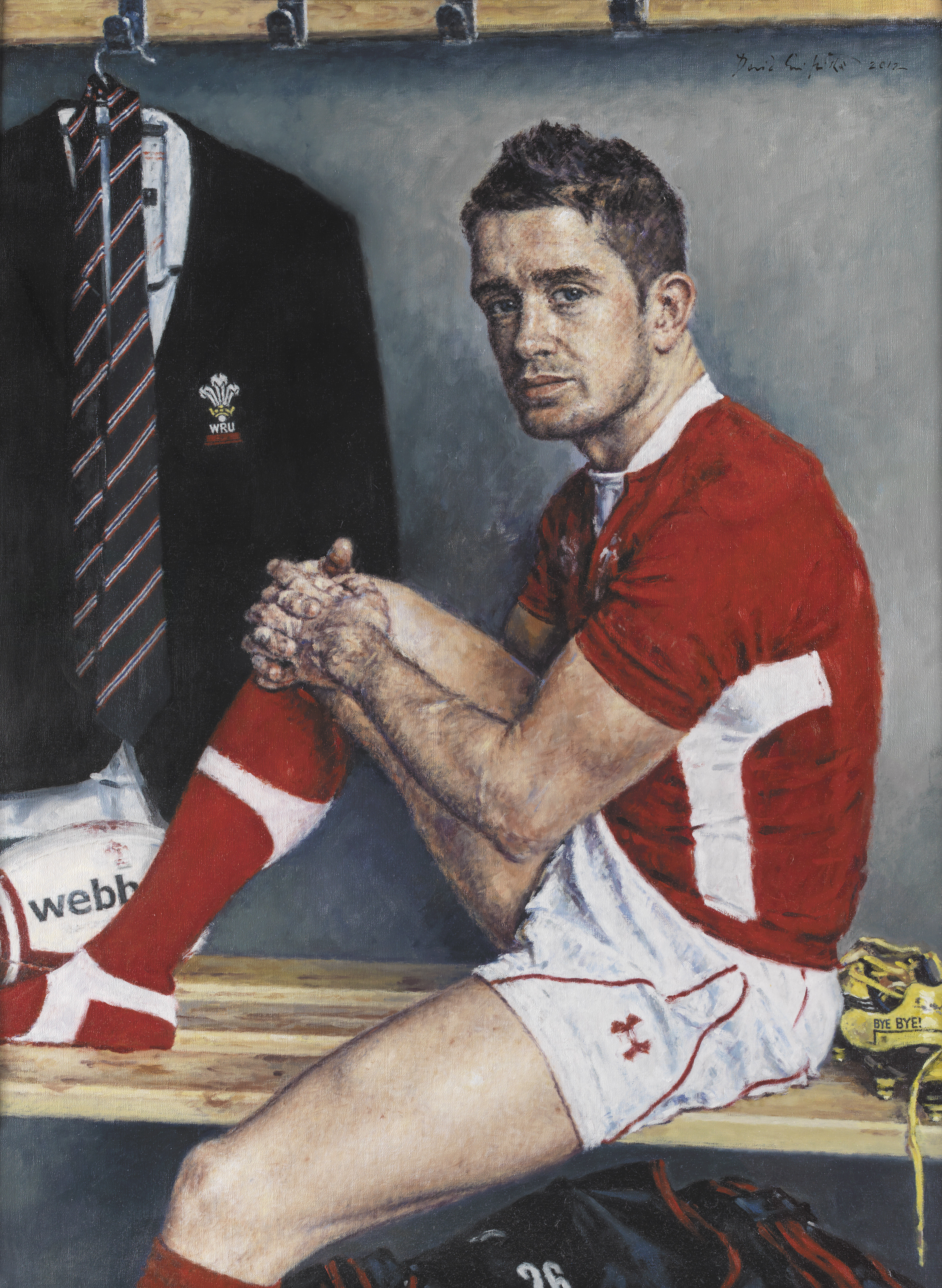 Portrait of the Wales and British Lions international Rugby Union player Shane Williams